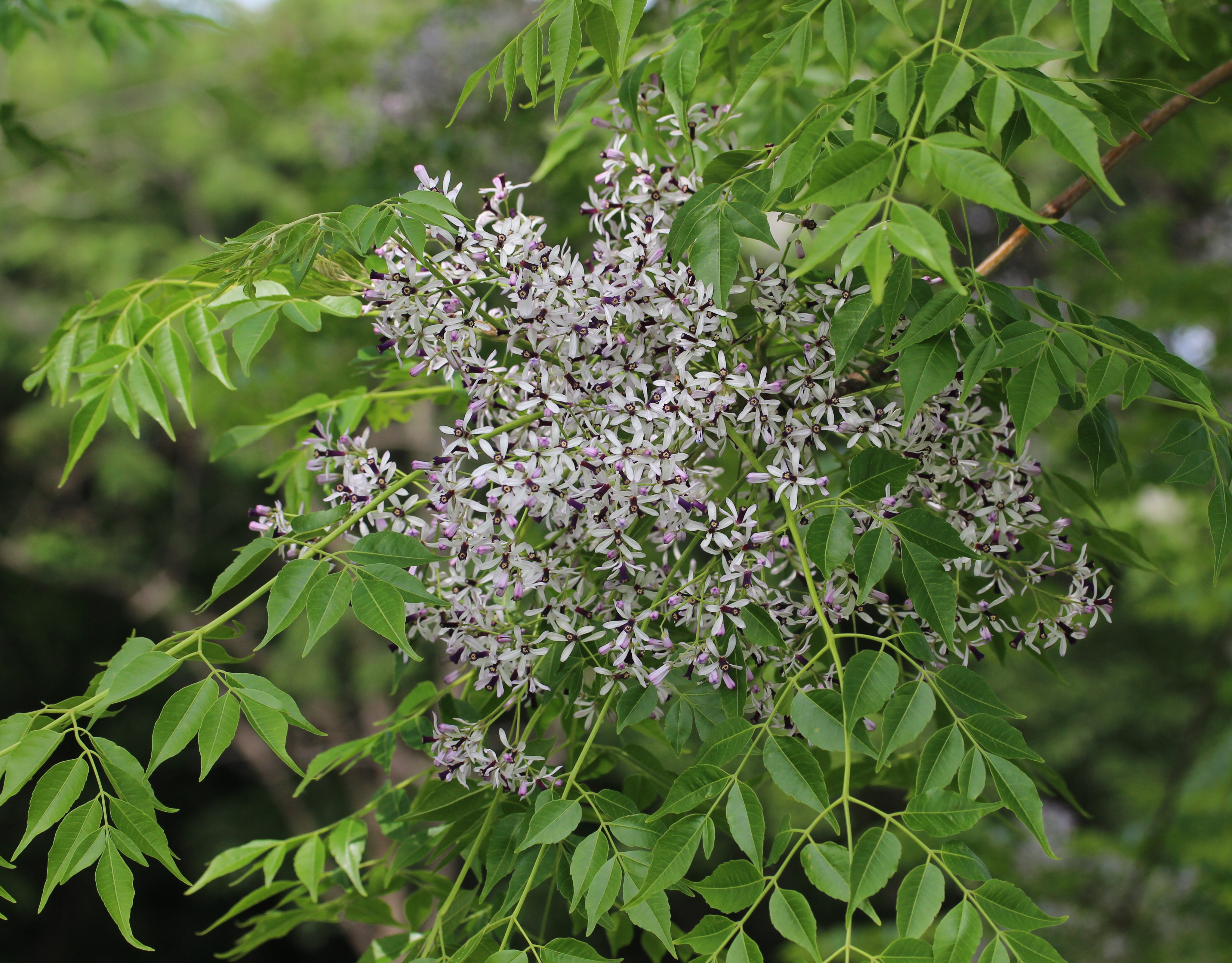 Melia azedarach, flower in Japan.